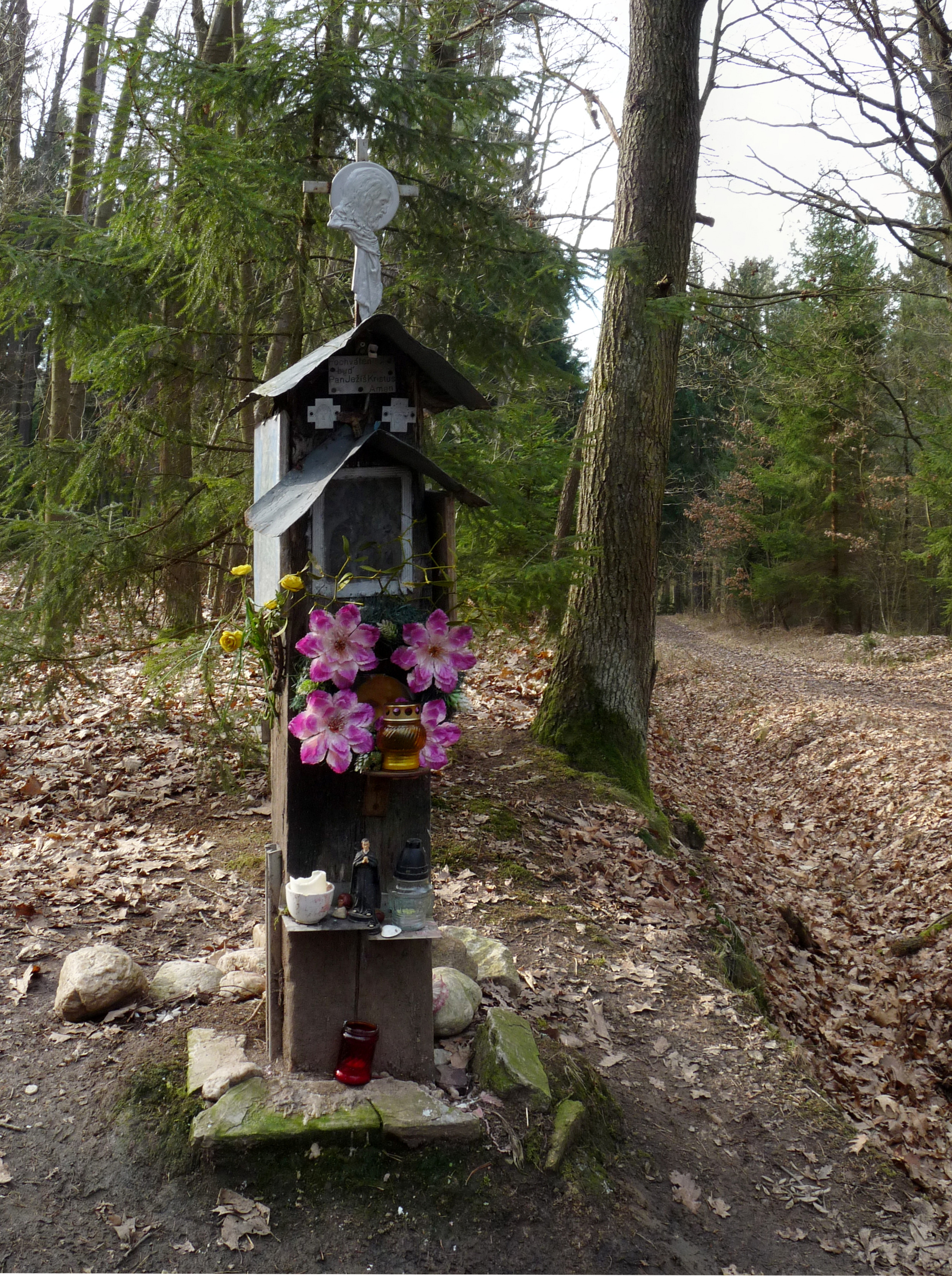 Wooden column shrine in Branišovský les (Branišov Forest), České Budějovice District, South Bohemian Region, Czech Republic.